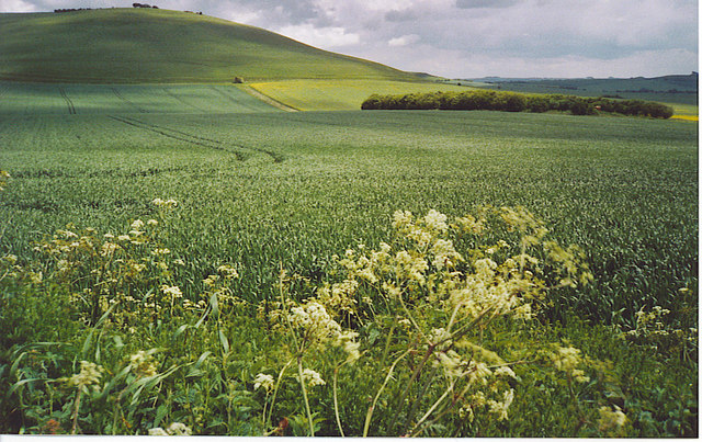 Downland West of Milk Hill. Rolling grassy fields north-west of Pewsey lead up to Milk Hill which has a white horse carved on the other side of it.